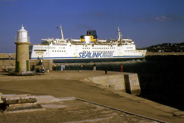 The "St Columba" at Dun Laoghaire. The car ferry "St Columba" at Dun Laoghaire when operating on the Holyhead service 1109511.